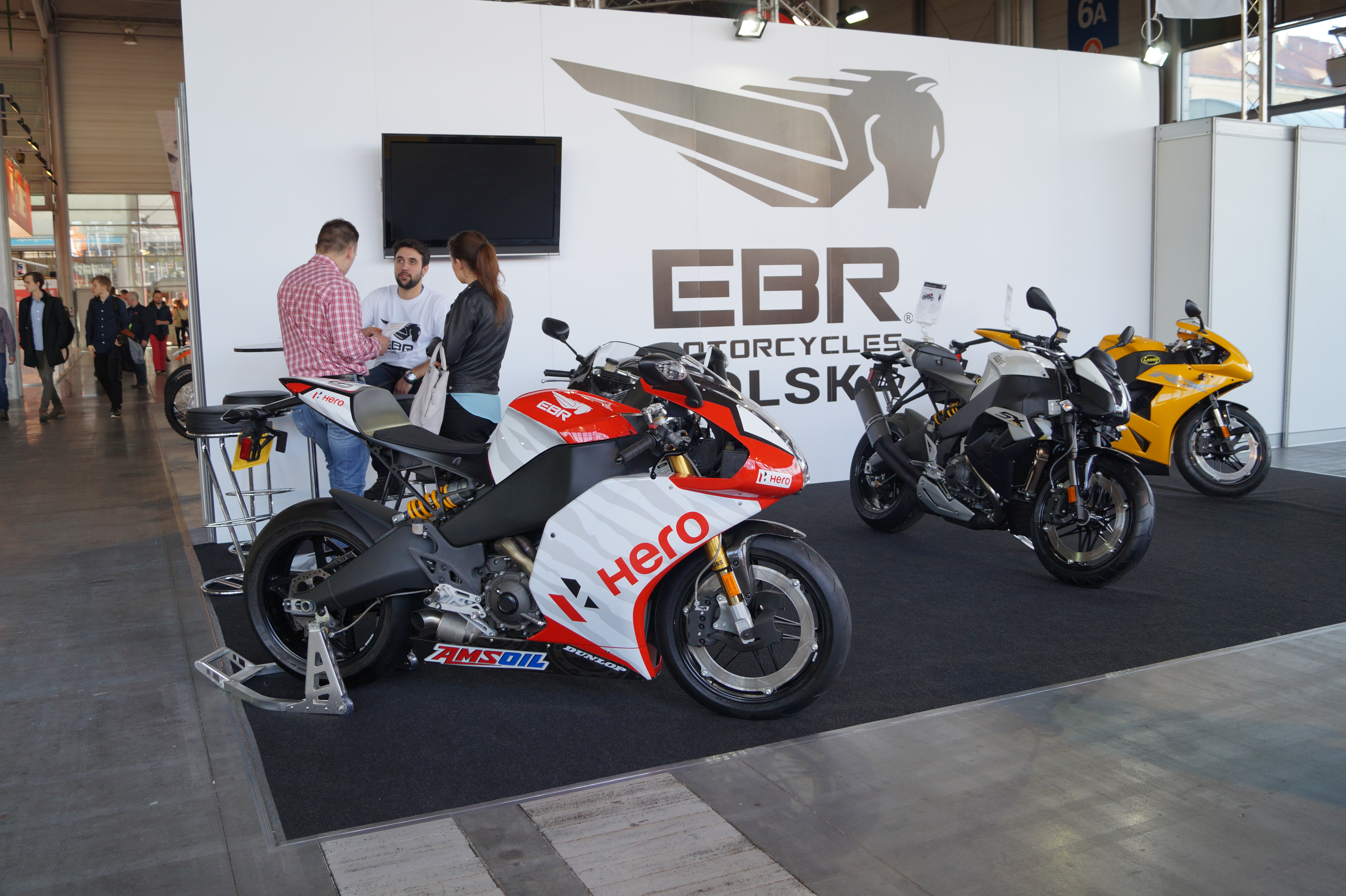 The making of this document was supported by Wikimedia Polska Association, within Wikigrant no. WG 2015-19. English | polski | +/− Stanowisko EBR Motorcycles na Motor Show Poznań 2015